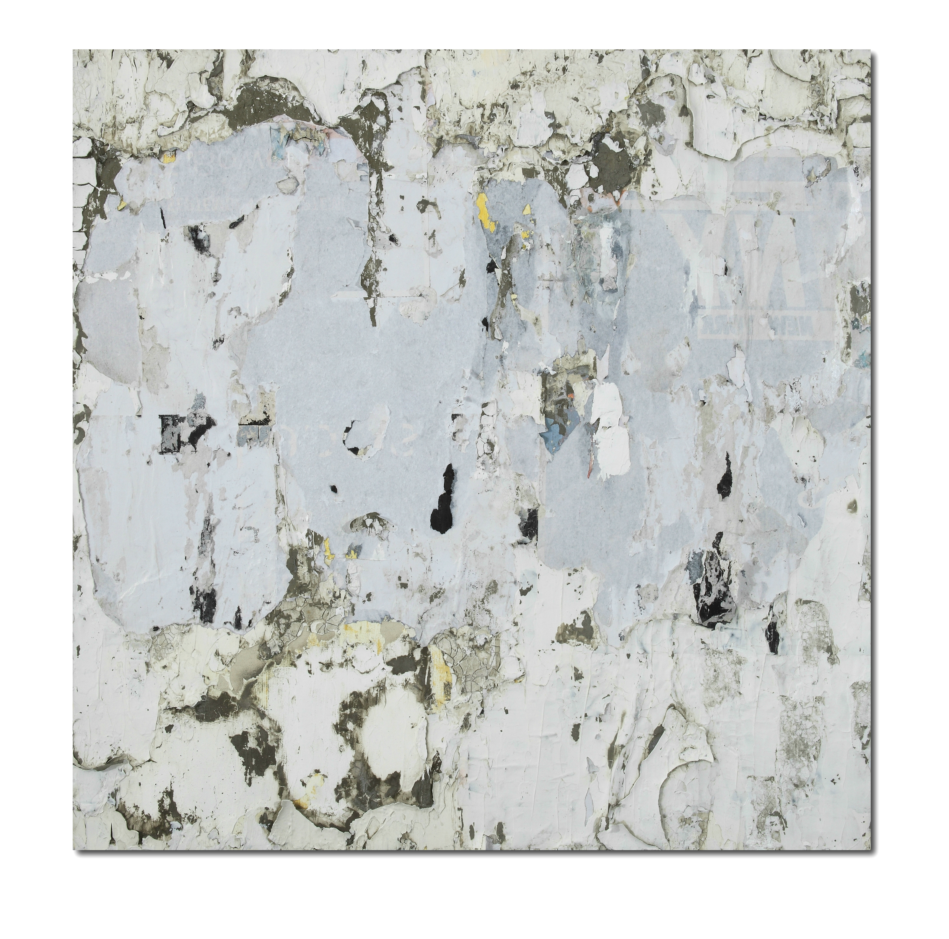 Acrylics and cement on canvas